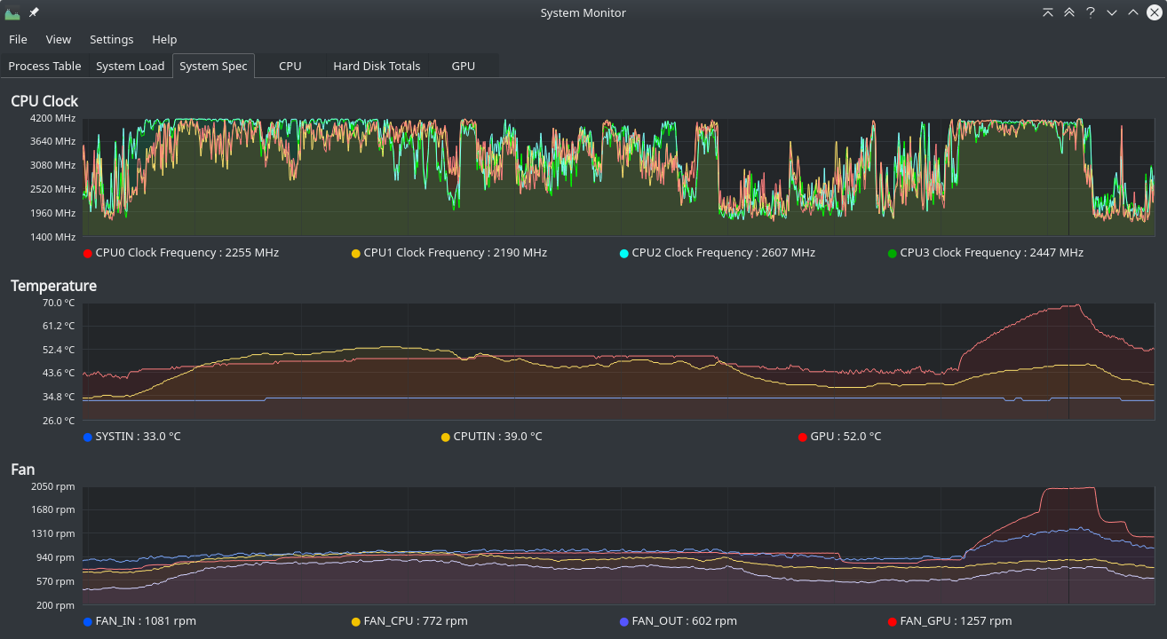 KDE System Monitor 5.14.4 displaying various hardware sensors in a 3 row and 1 column configuration. top row: clock freq of a 4-core CPU mid row: temperatures of the chipset, CPU and GPU bottom row: fan rpm of intake fan, exit fan, cpu fan (these three are connected to the MB) and GPU fan (connected to the graphic card)